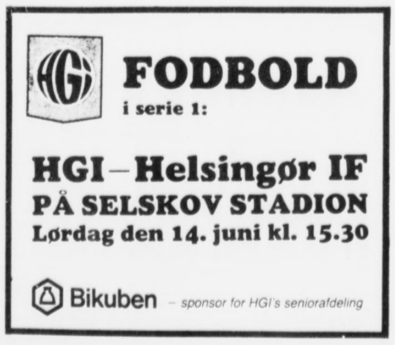 Advertisement for the association football match between Hillerød G&IF and Helsingør IF reserves - Fodbold i serie 1: HGI - Helsingør IF på Selskov Stadion ; Lørdag den 14. juni kl. 15.30 ; Bikuben - sponsor for HGI's seniorafdeling.